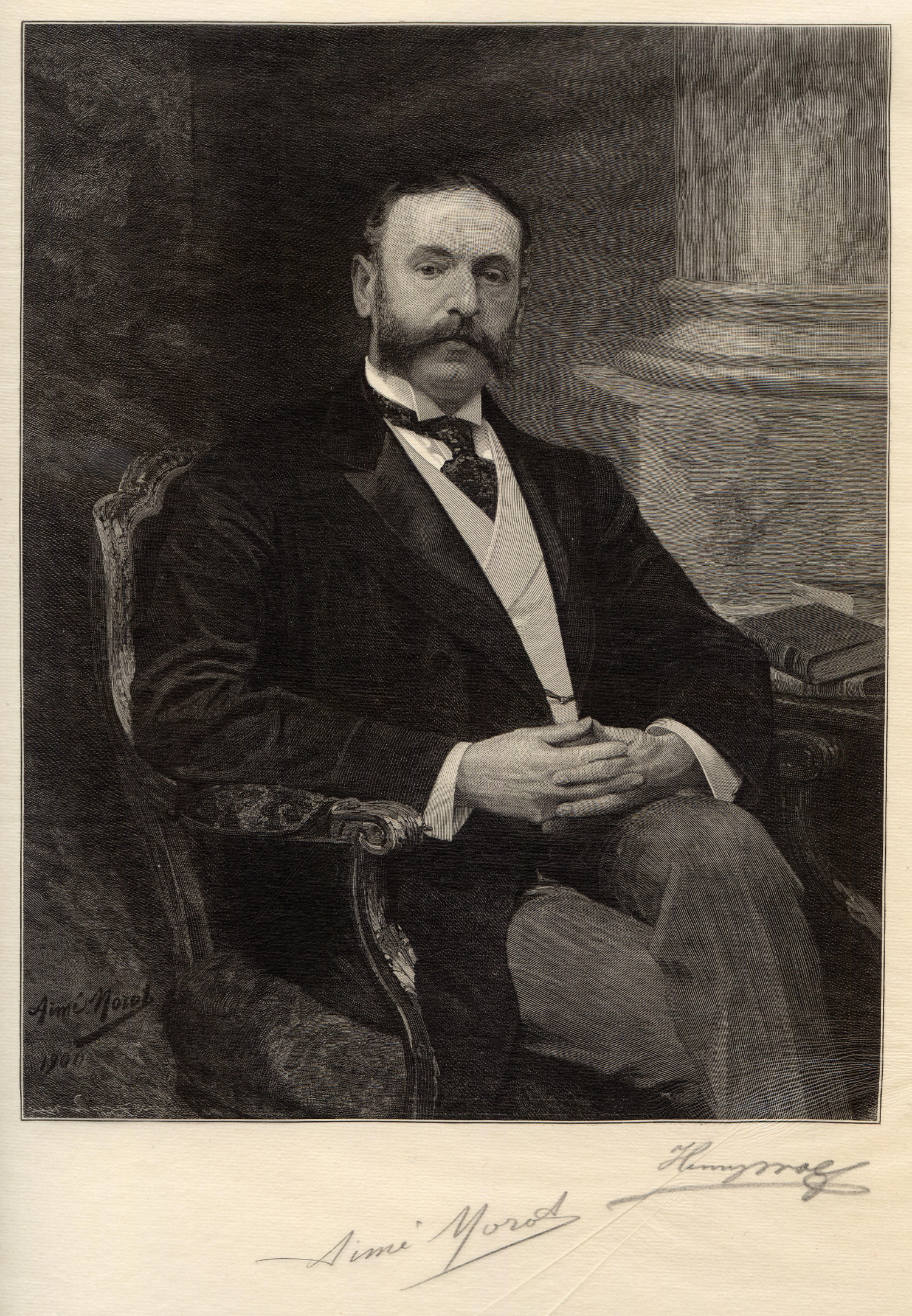 Engraving of a portrait of Mr. Louis Stern by Aimé Nicolas Morot, 1900. Engraving by Henry Wolf on fine Japan tissue dated 1904. Signed by both Aimé Nicolas Morot and Henry Wolf.